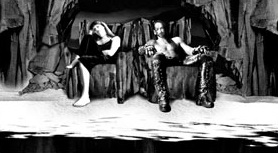 Braindance - Sebastian Elliott and Vora Vor